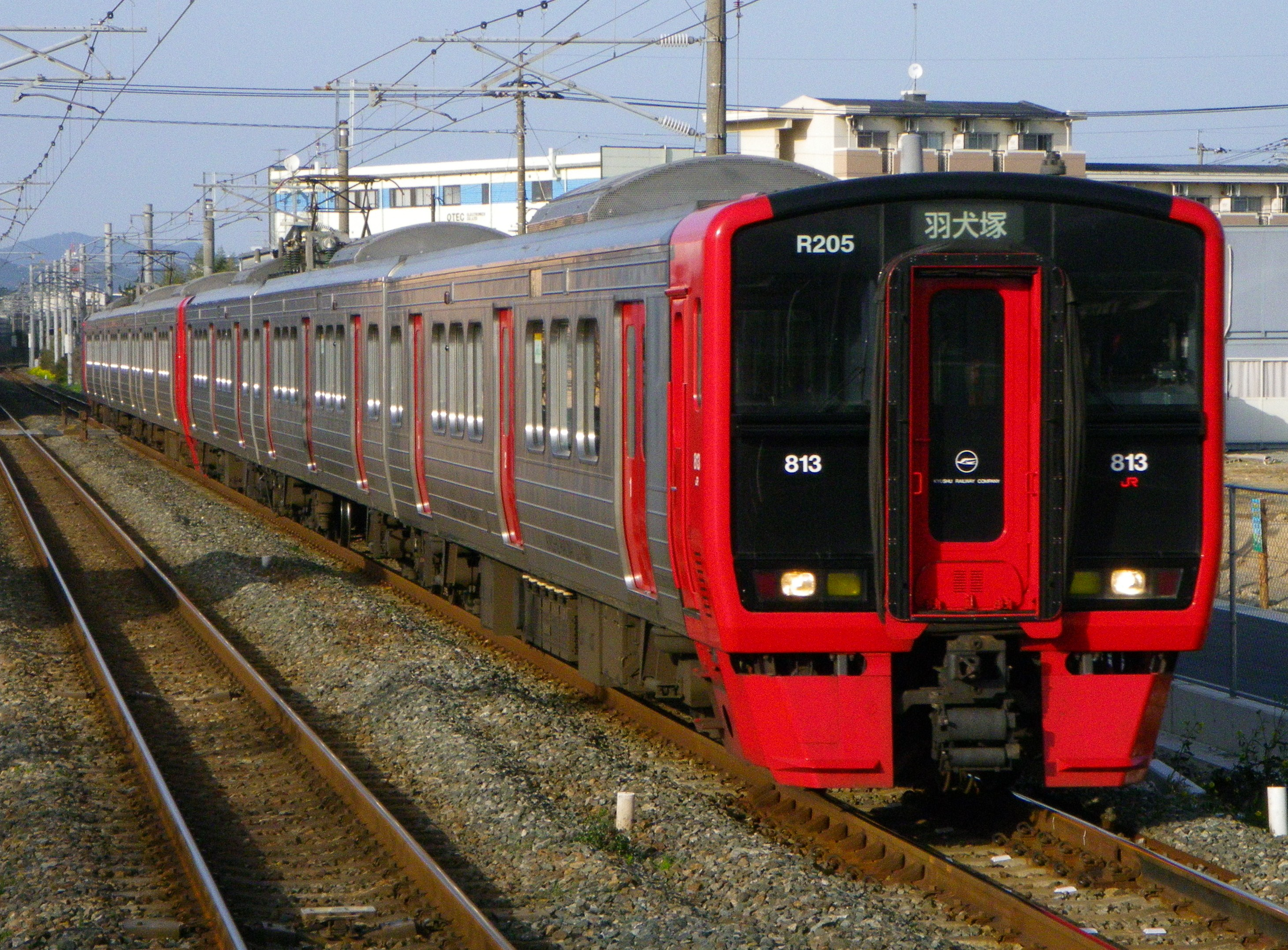 JR Kyushu 813-200 series EMU set R205 at Shingu-chuo Station on the Kagoshima Line